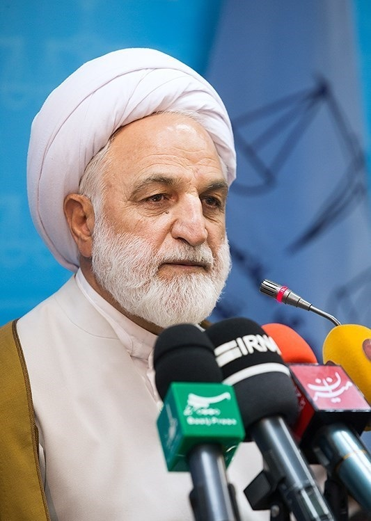 Gholam-Hossein Mohseni-Eje'i